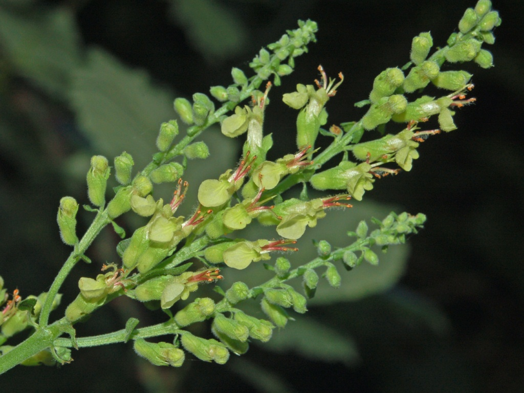 Teucrium scorodonia - Eremo del deserto, Genova, Italy